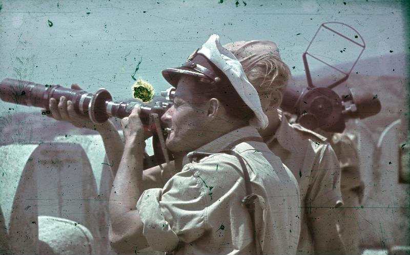 Information added by Wikimedia users.*